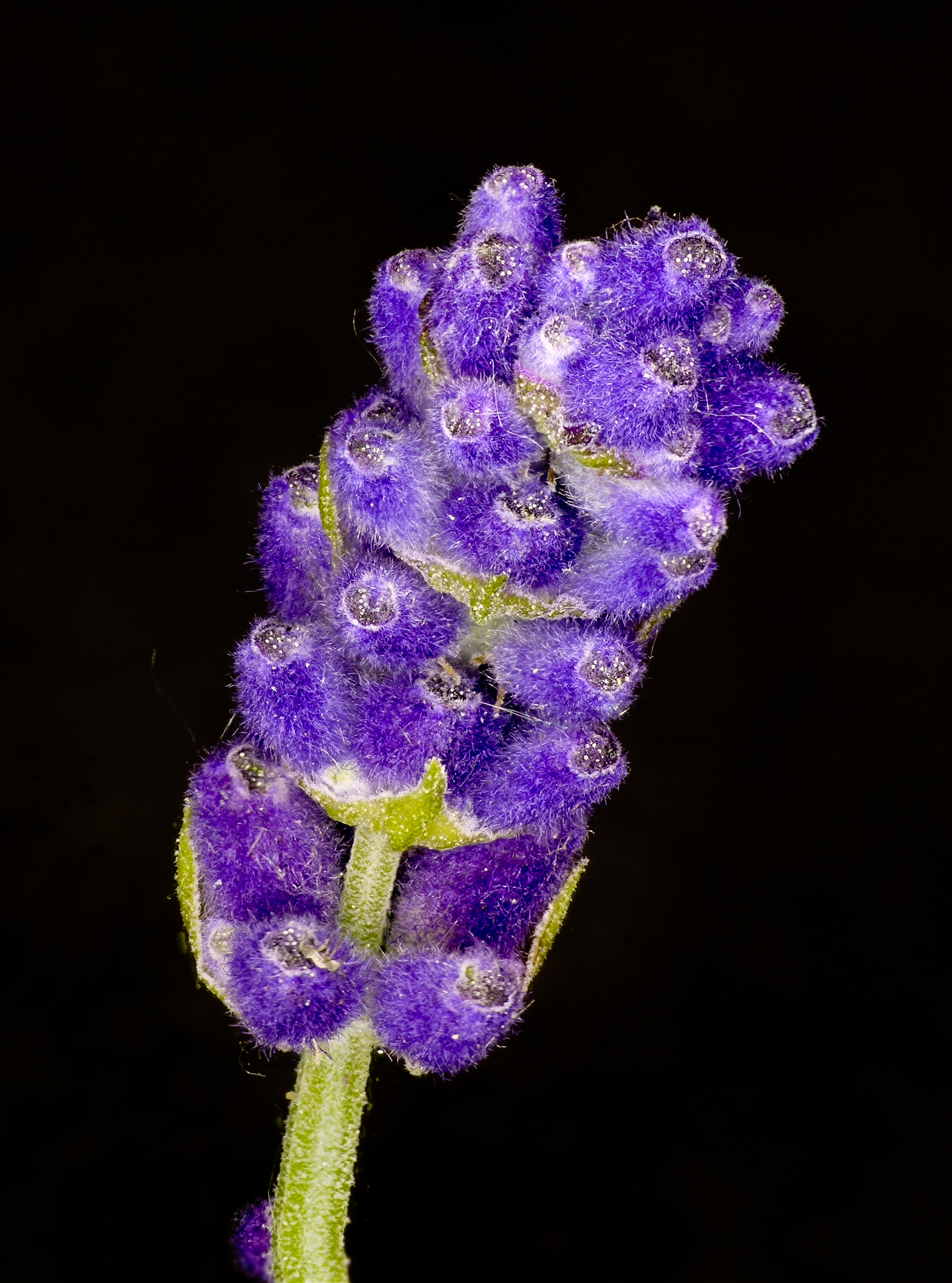 Lavender (Lavendula Angustifolia)